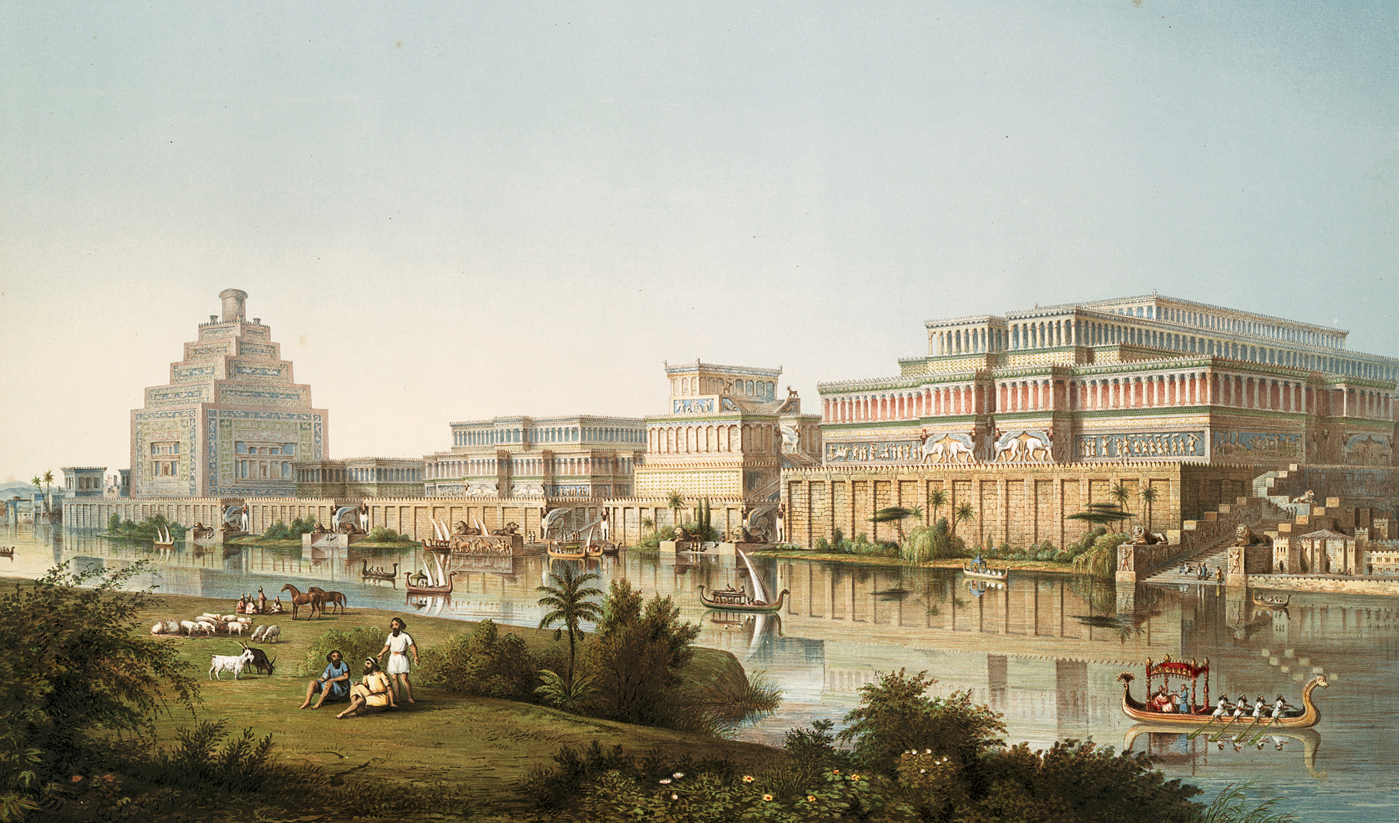 Artist's impression of Assyrian palaces, from a sketch by James Fergusson (1808–1886) DescriptionBritish architectural historian and architectDate of birth/death 22 January 1808 9 January 1886 Location of birth/death Ayr LondonAuthority control : Q1225014 VIAF: 2541089 ISNI: 0000 0001 2117 9888 ULAN: 500222628 LCCN: n50026890 NLA: 35081313 WorldCat creator QS:P170,Q1225014